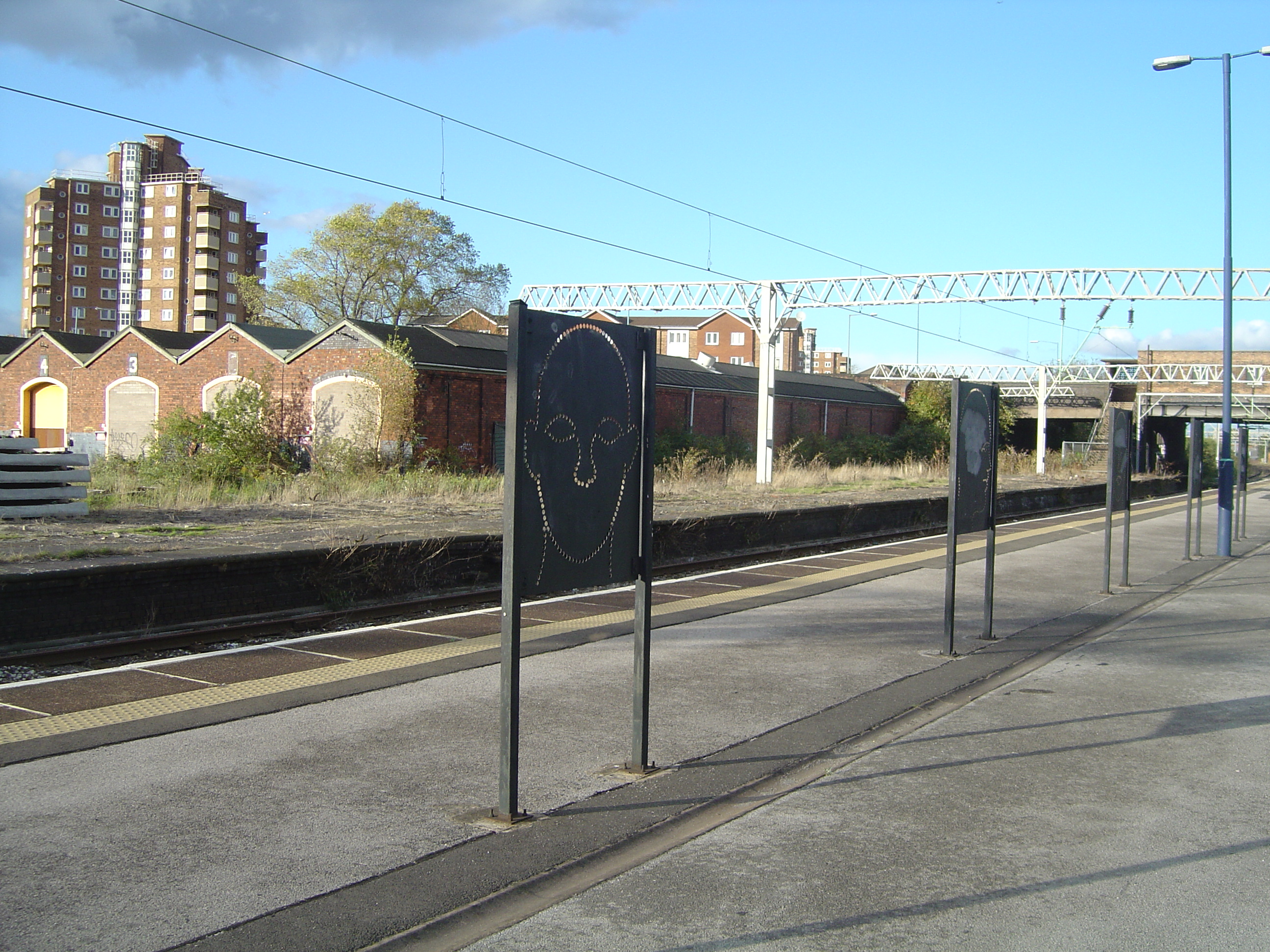 Duddeston railway station showing platform artwork